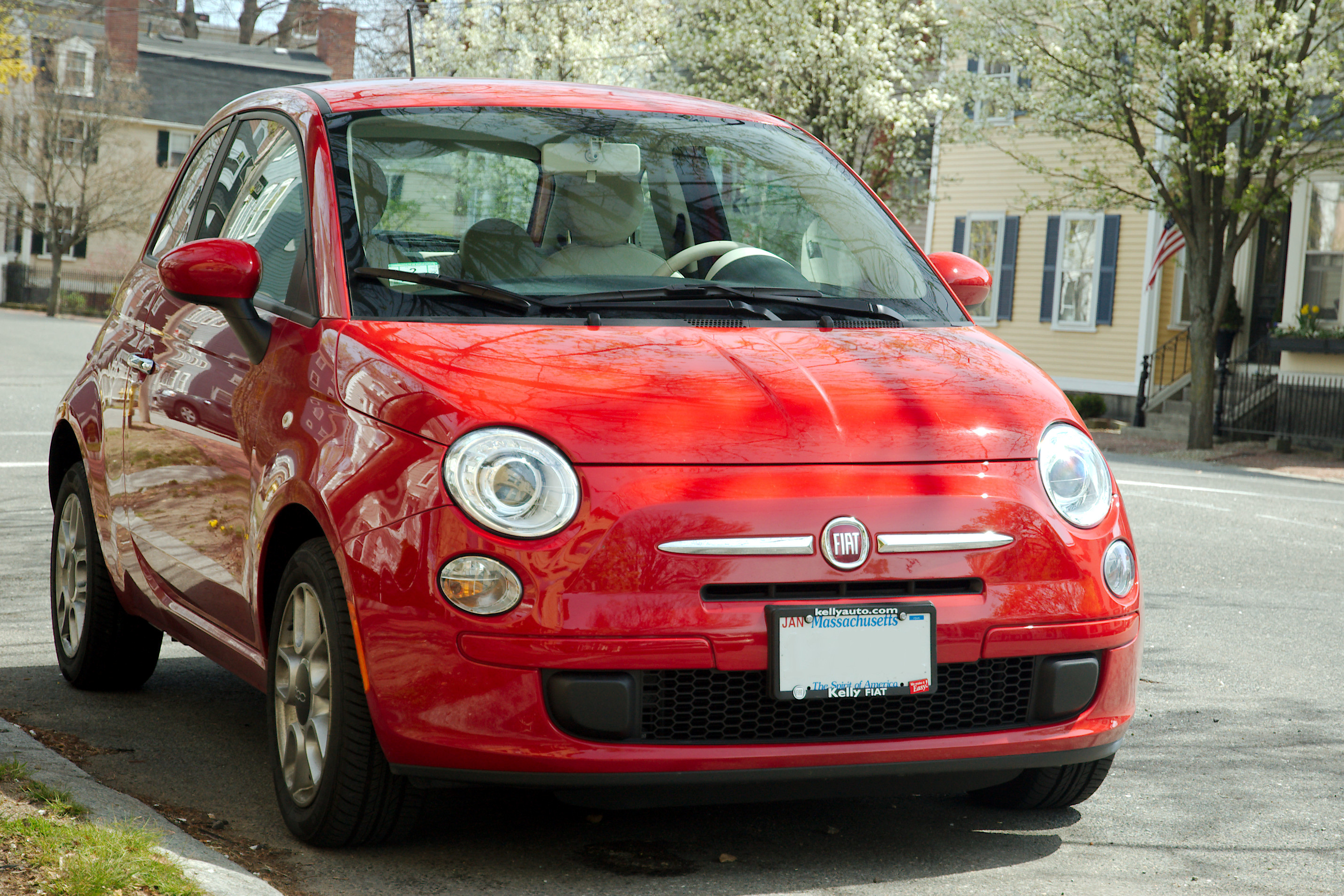 Fiat 500 (2007 model) sighted in Salem, Massachusetts